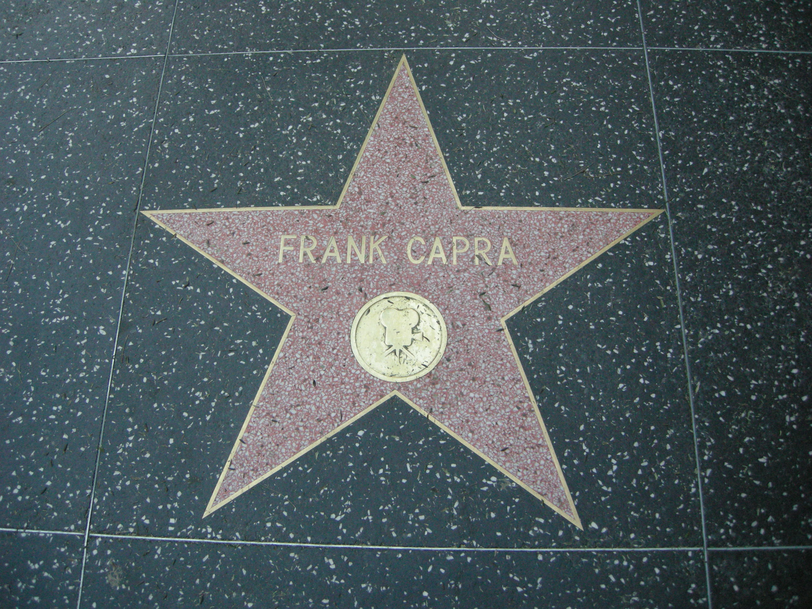 Walk of fame, frank capra